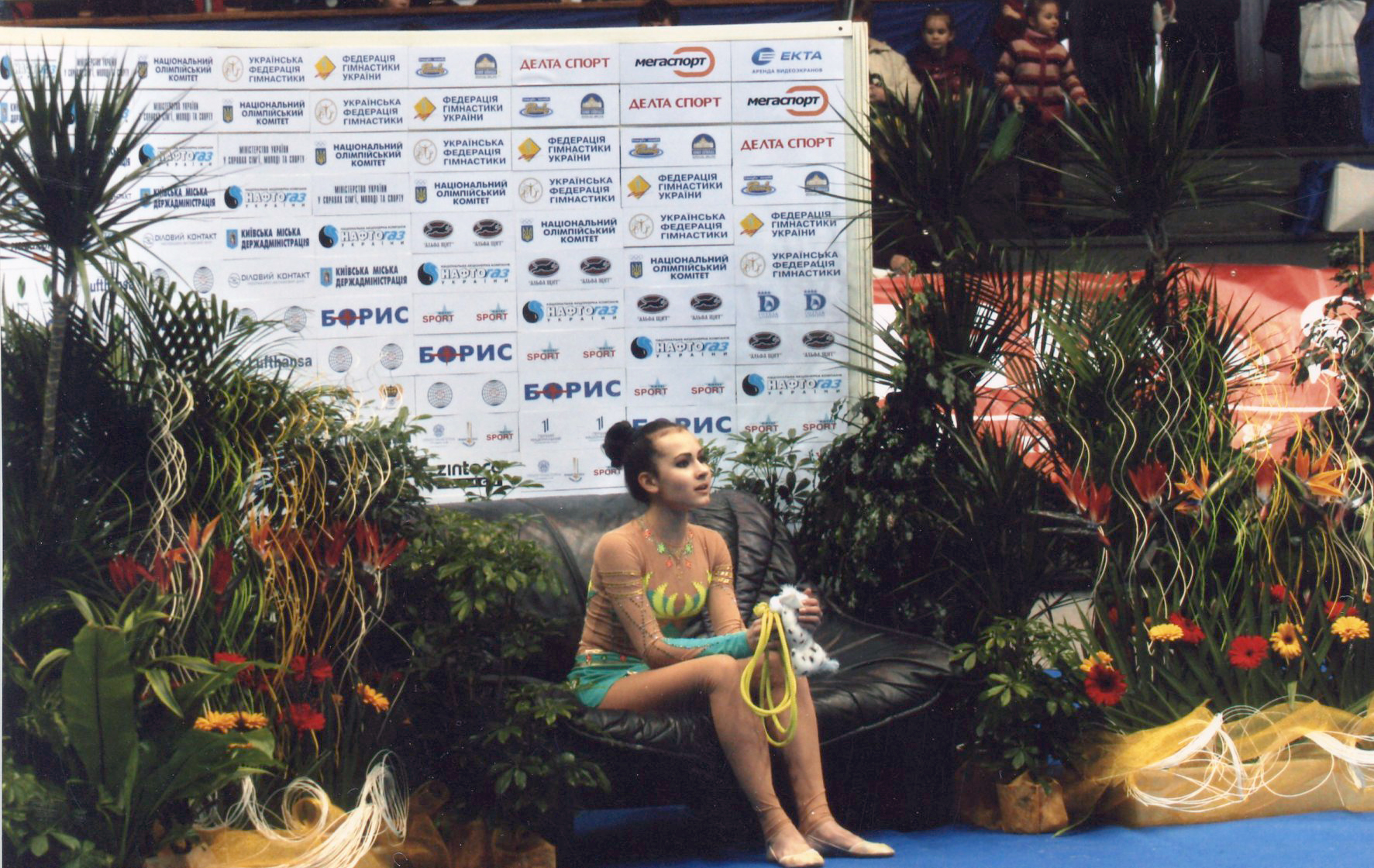 Vasina_Nadya